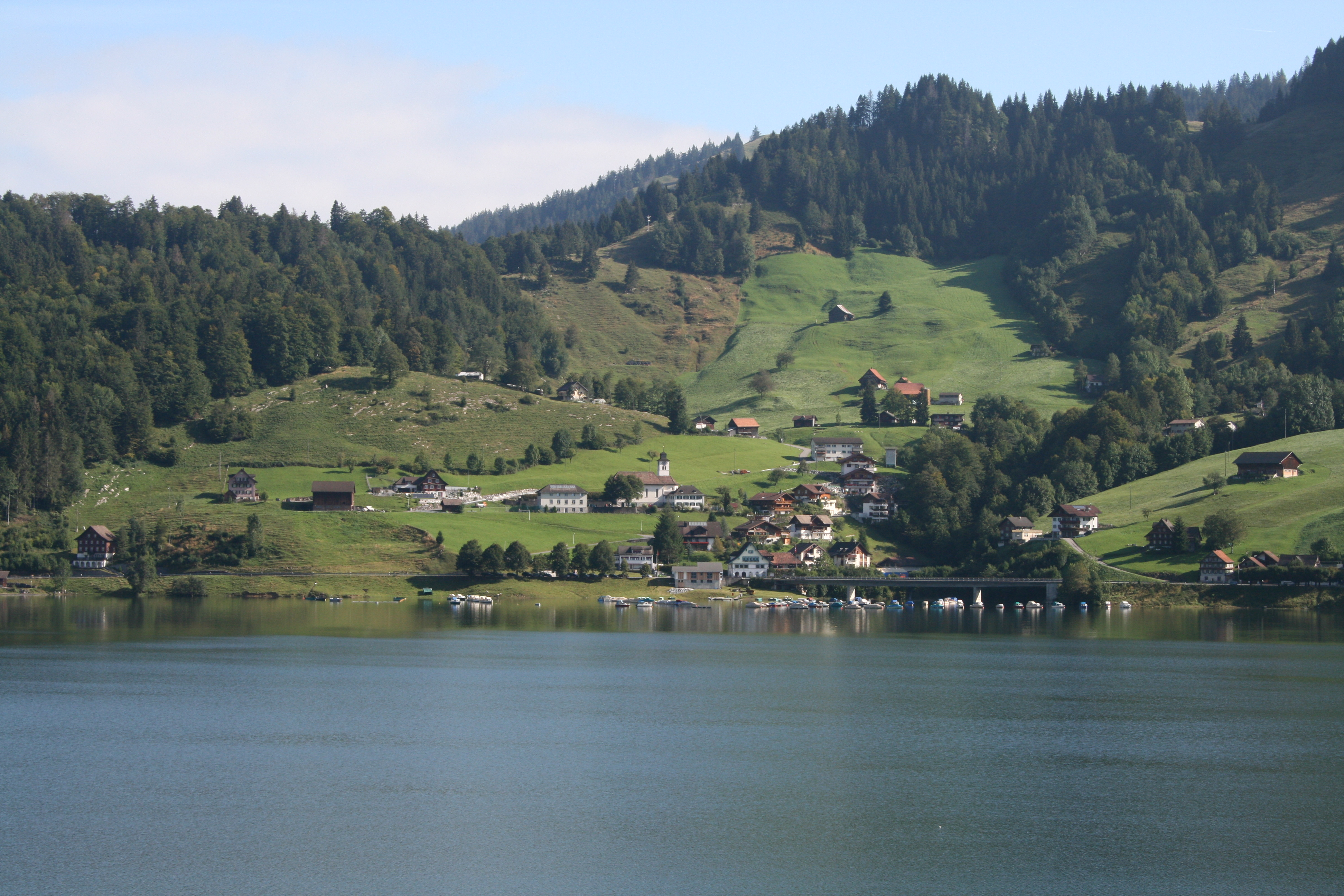 Innerthal SZ